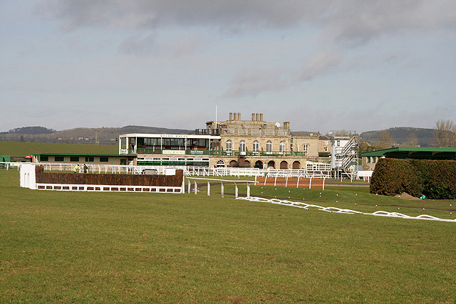 Kelso Racecourse, near to Kelso, Scottish Borders, Great Britain. This is a view of the southwest end of the racecourse with the grandstands in the background.